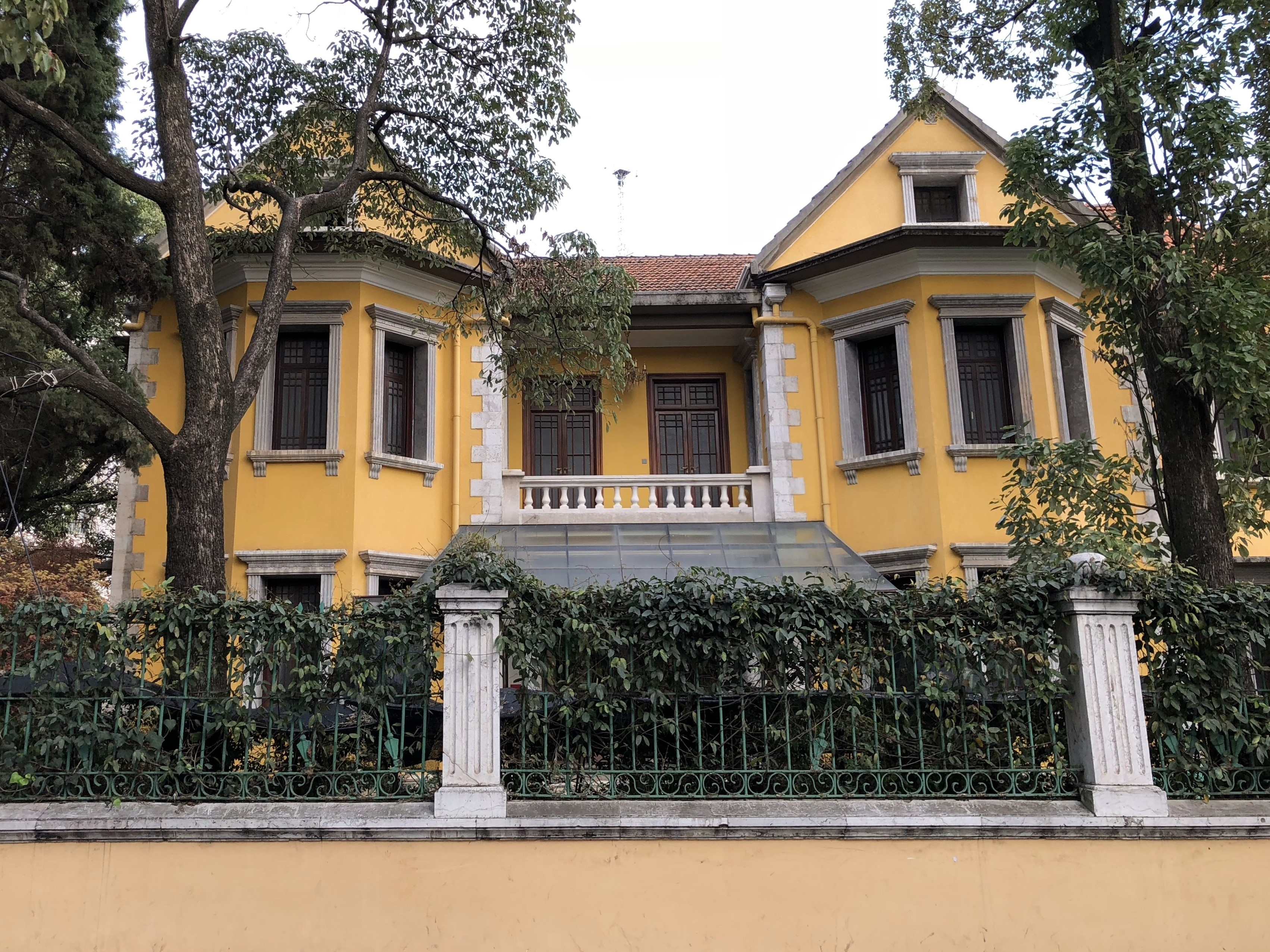 Lu Han's Mansion